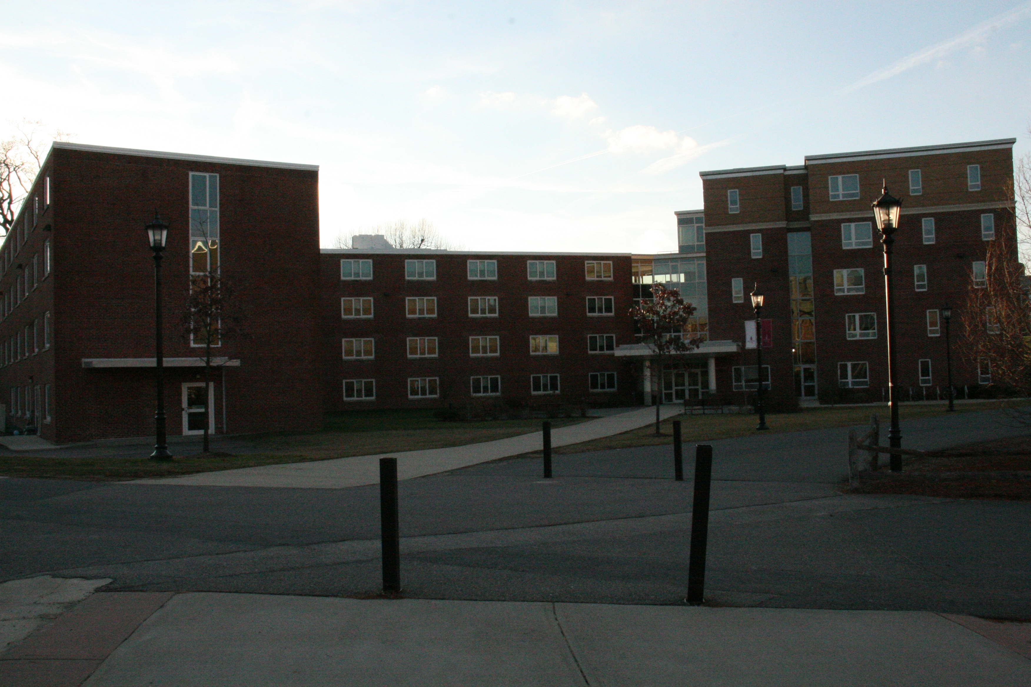 Bridgewater University 170 Summer st Bridgewater Ma